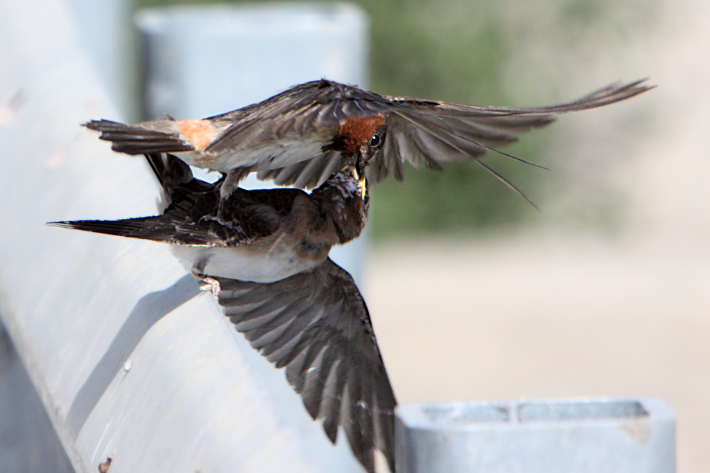 I was observing this juvenile cliff swallow when it started to vocalize loudly and flap it's wings as an adult cliff swallow flew straight past it - without stopping. This happened several times in the span of about an hour, and I wondered if the adult was actually feeding the juvenile as it passed, even though this seemed to me to be quite impossible because of the speed with which the adult flew passed each time. In real time it looked like a normal flyby. The next time the adult flew past, I loosed off a couple of shots. This image is not a particularly good one, but it clearly shows the beak of the flying adult bird inside the beak of the juvenile, as the adult flew non-stop past the juvenile. Unfortunately, both birds flew off after this one flyby, so I was unable to try again. What an amazing flying capability.